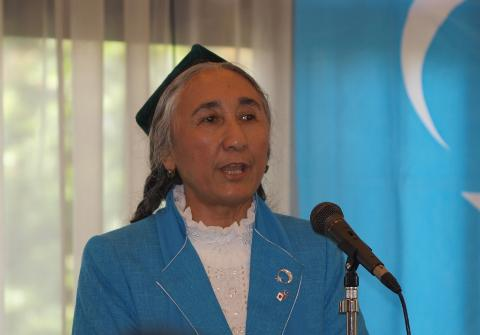 Uighur Leader Accuses China of ‘Systematic Assimilation’